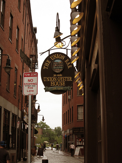 Union Oyster House